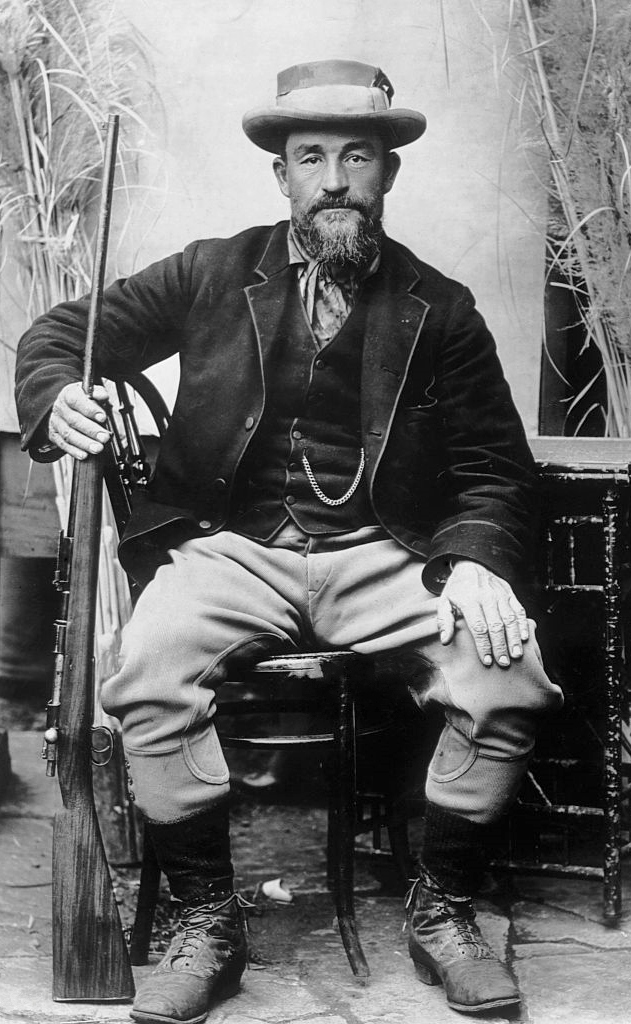 Christiaan De Wet (1854–1922), South African general and politician. The photo was taken in Potchefstroom on the 27th of August 1900, six days after he and his commando of 246 men escaped from near encirclement north of the Magaliesberg. He is posing with a restored rifle that was handed in to the English by one of many "hensoppers". This was usually done in return for having their property and farms spared by the enemy. De Wet wrote of this photo: Potchefstroom was not at that time in the hands of the English. I rode over to the town, and then it was that the well-known photo was taken of me that has been spread about everywhere, in which I am represented with a Mauser in my hand. I only mention this so as to draw attention to the history of the weapon which I held in my hand. It is as follows:– When the enemy passed through Potchefstroom on their way to Pretoria, they left a garrison behind them, and many burghers went there to give up their arms, which forthwith were burnt in a heap. When the garrison left the dorp the burghers returned. Amongst them were some who set to work to make butts for the rifles that had been burnt. "This rifle," I was told by the man who showed it to me, "is the two hundredth that has been taken out of the burnt heap and repaired." This made such an impression on me that I took it in my hand, and had my photo taken with it. I am only sorry that I cannot mention the names of the burghers who did that work. Their names are worthy to be enrolled on the annals of our nation.